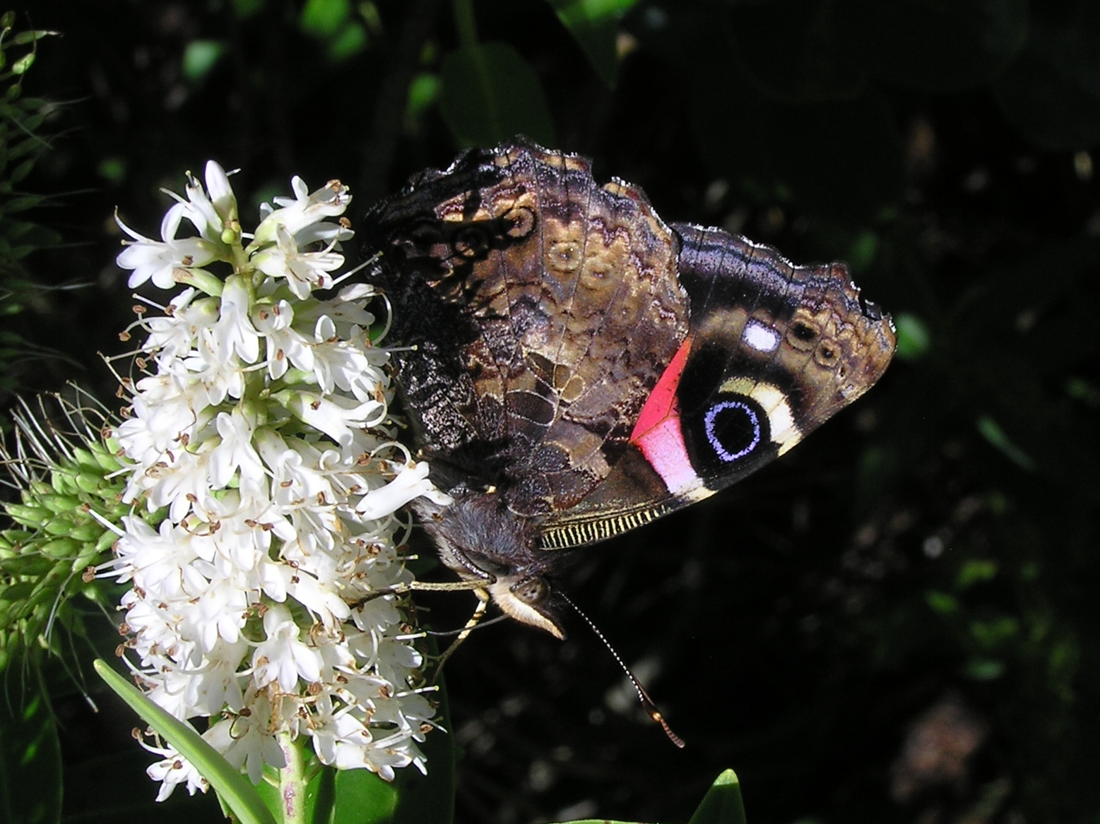 NZ Red Admiral Butterfly, showing eyespot on underside of forewing. Wellington, New Zealand. Māori: Kahukura